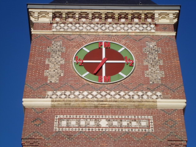 Tide gauge, Rouen, Normandy